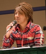 Japanese composer Hiroki Kikuta at Sakura-Con in March 2008.